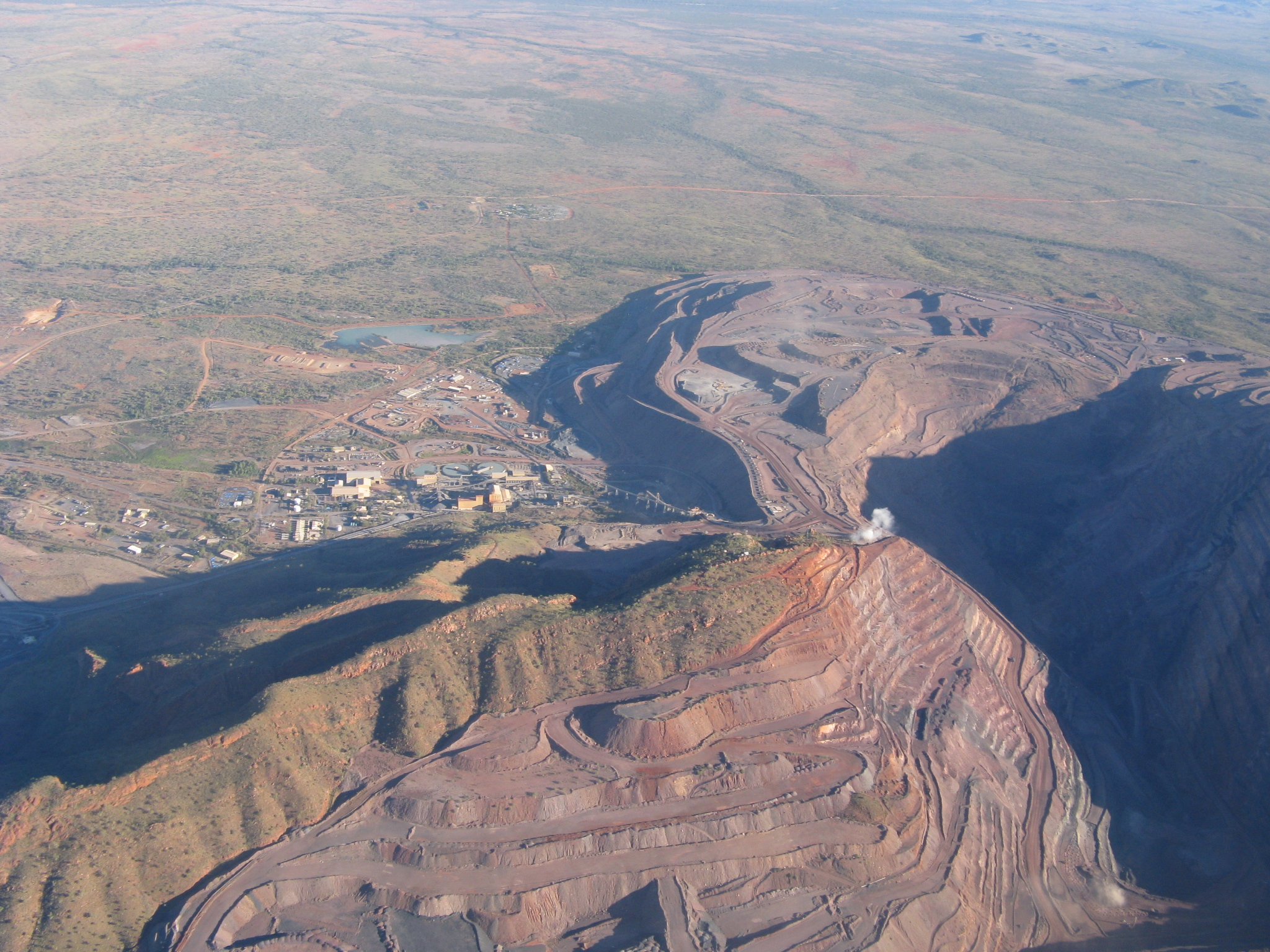 Argyle Diamond Mine, Kimberley/Australia, seen from the air